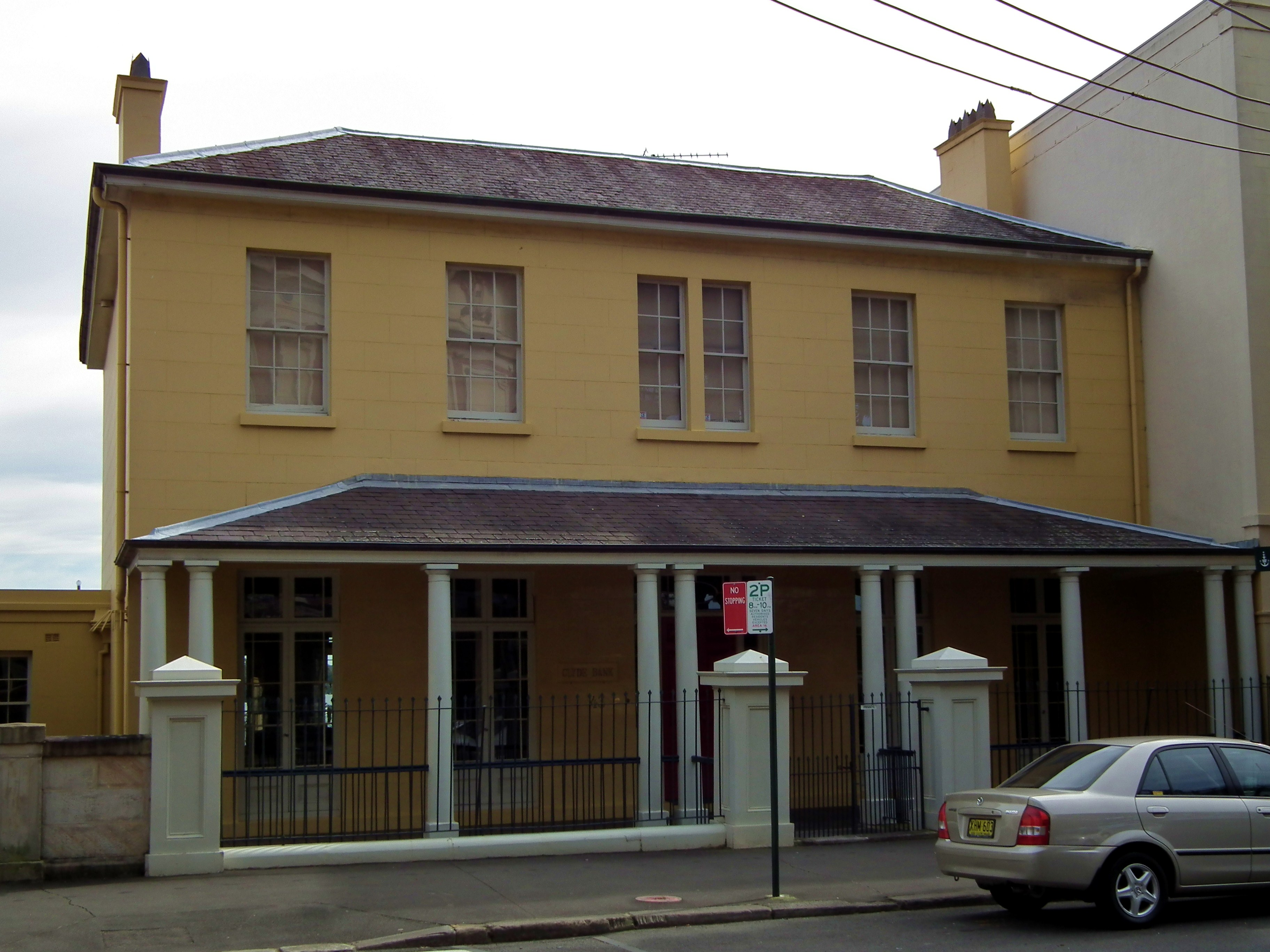 Clydebank, 43 Lower Fort Street, Millers Point, Sydney, New South Wales, Australia. House constructed 1824-25 for Robert Crawford, Principal Clerk to the Colonial Secretary of NSW.